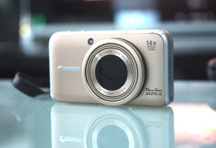 Canon Powershot SX210 IS in Gold